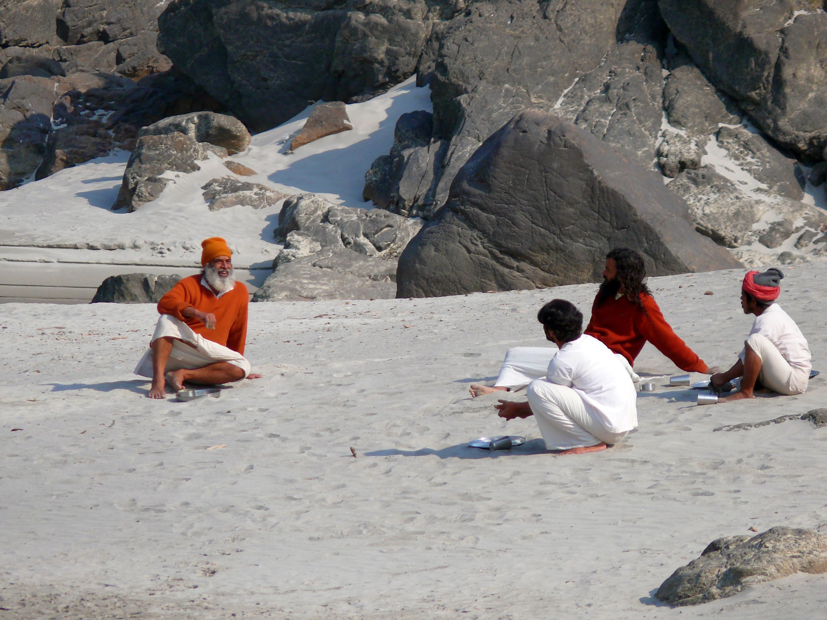 Chitchat at bank of River Ganga at Rishikesh